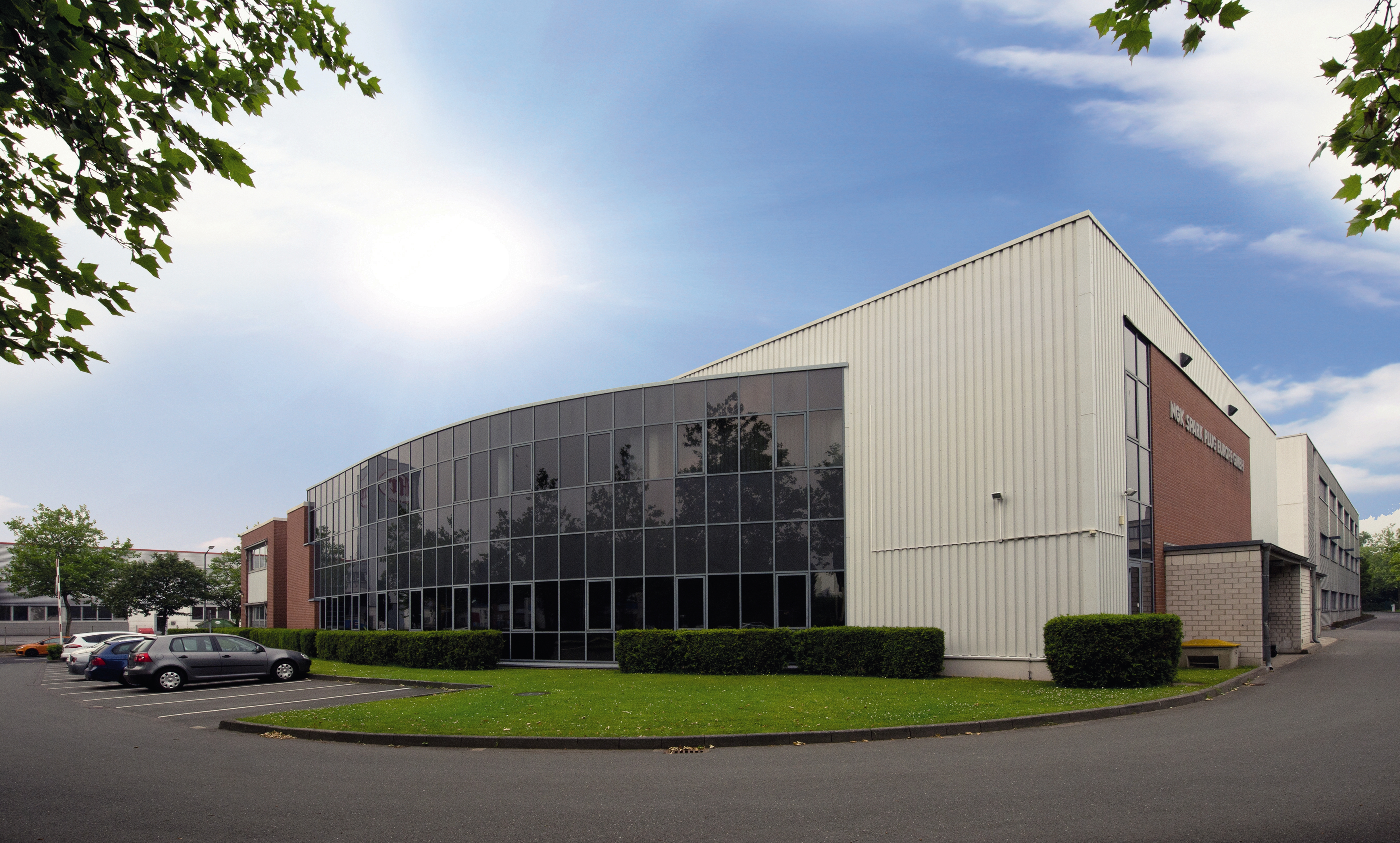 NGK SPARK PLUG EUROPE’s EMEA headquarters in Ratingen, Germany